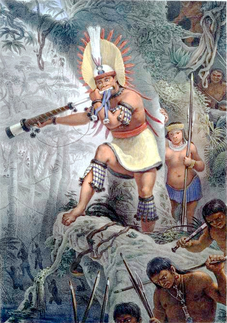 Title of work: Battle signal of the Coroados [Bororo]. In: Voyage pittoresque et historique au Brésil, ou Séjour d'un artiste français au Brésil, depuis 1816 jusqu'en 1831 inclusivement, epoques de l'avènement et de l'abdication de S. M. D. Pedro 1er, fondateur de l'Empire brésilien. Dédié à l'Académie des Beaux-Arts de l'Institut de France. (published 1834-1839) Library Division: Humanities and Social Sciences Library / Print Collection, Miriam and Ira D. Wallach Division of Art, Prints and Photographs Description: 3 v. facsim., map, 2 plans, port. 50 cm. and 6 portfolios (153 plates) (incl. ports.) 59 cm. Item/Page/Plate Number: I/Pl. 11 Medium: Lithographs -- Hand-colored Specific Material Type: Prints Collection Guide: The Luso-Hispanic New World in Early Prints and Photographs Digital Image ID: 1224056 Digital Record ID: 568685 Digital Record Published: 8-17-2004; updated 10-3-2007